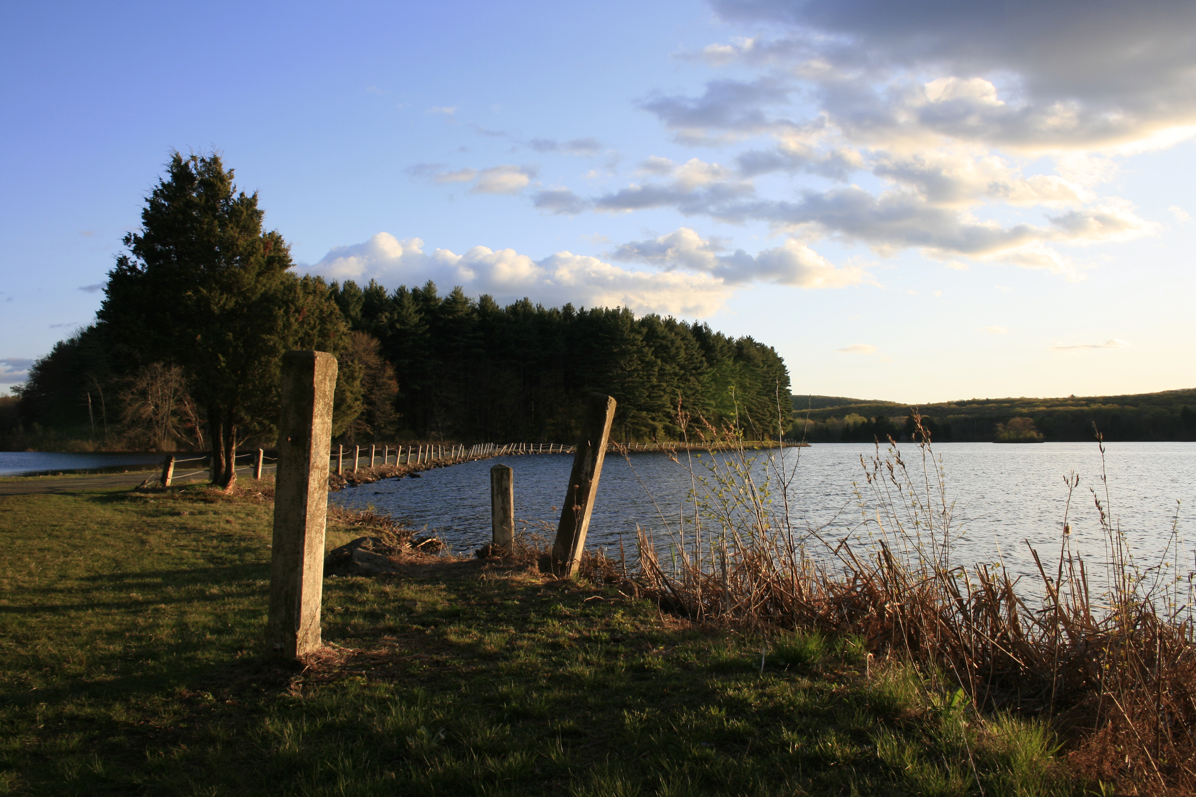 The Ashley Reservior in Holyoke, Mass. is home to the Empire One Running Club's weekly 5-K series. The shore of the Ashley Reservoir contains trails and roads for runners.